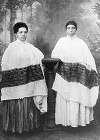 Empress Seble Wongel